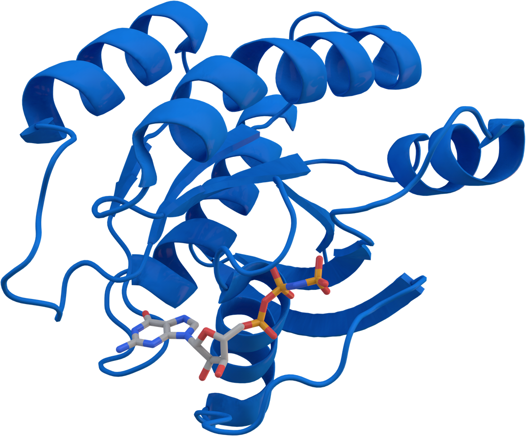 Cartoon representation of the crystal structure of Kirsten rat sarcoma viral oncogene homolog (KRAS), based on PDB 3GFT. Shown in stick representation is the GTP analogue.